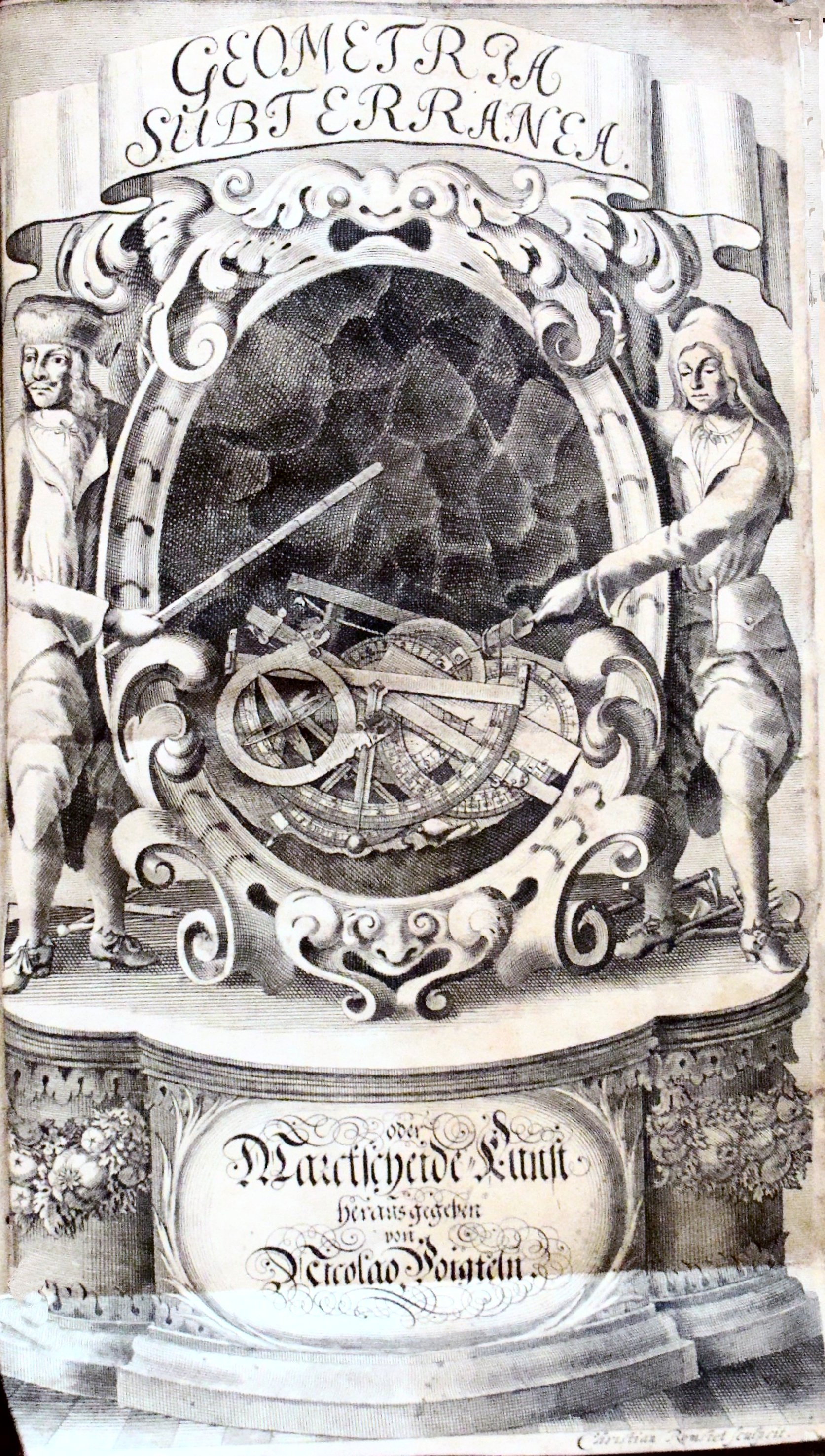 Geometria Subterranea